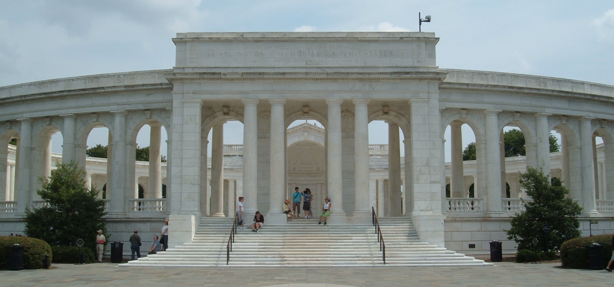 This is an image of the Arlington Memorial Amphitheater in the Arlington National Cemetery in Arlington, Virginia. The picture shown here was taken by Tariqabjotu on August 28, 2006. -- tariqabjotu 02:47, 29 August 2006 (UTC)